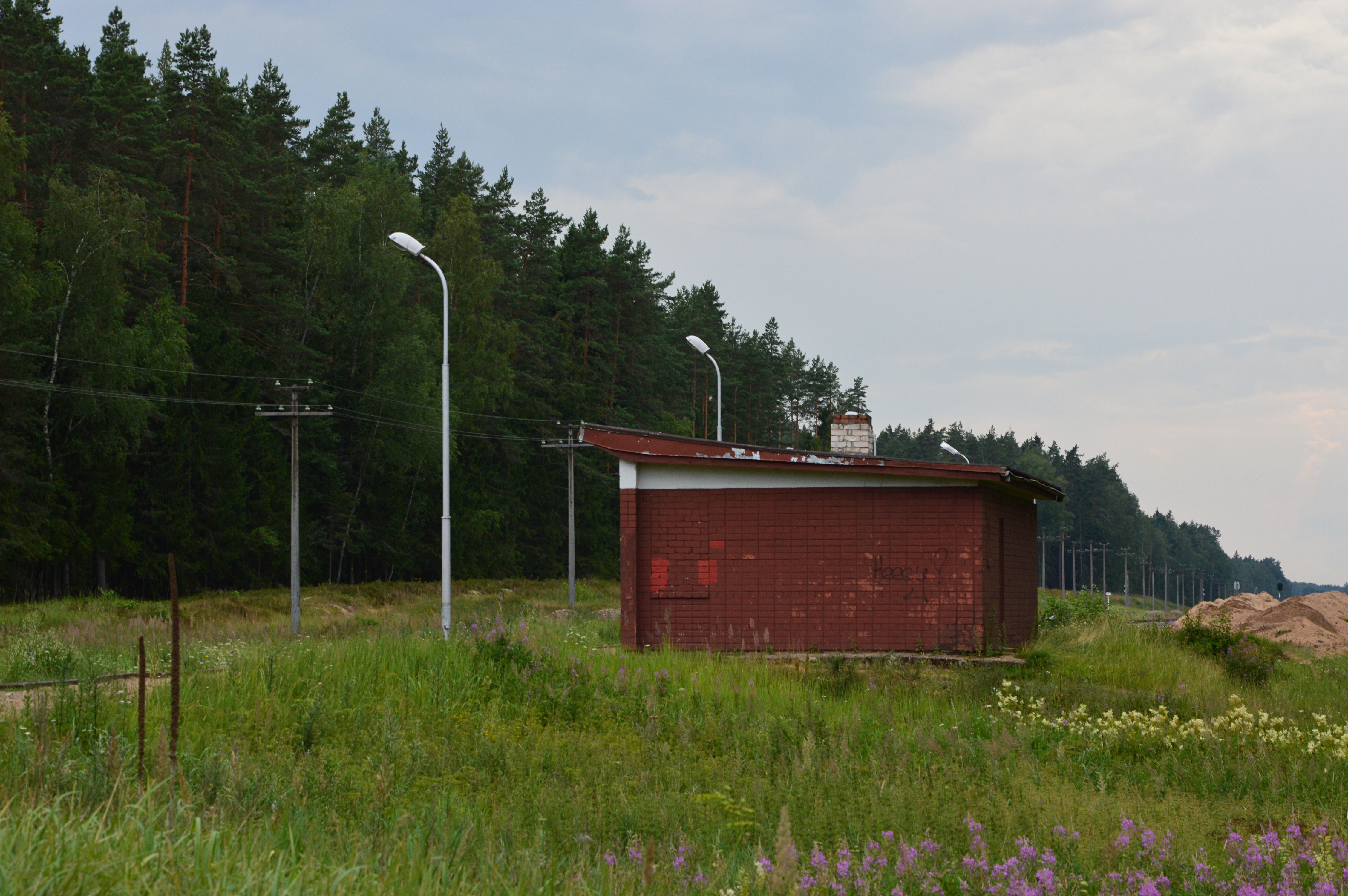 Seda railway stop in Latvia.